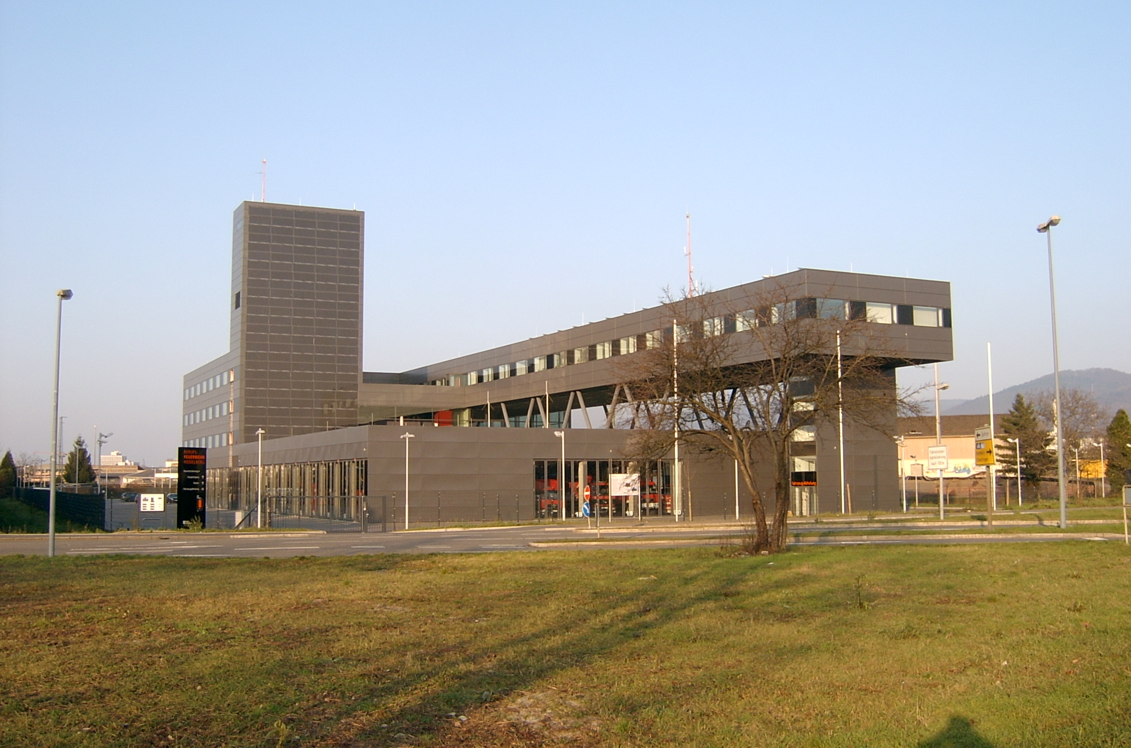 fire station of Heidelberg fire department